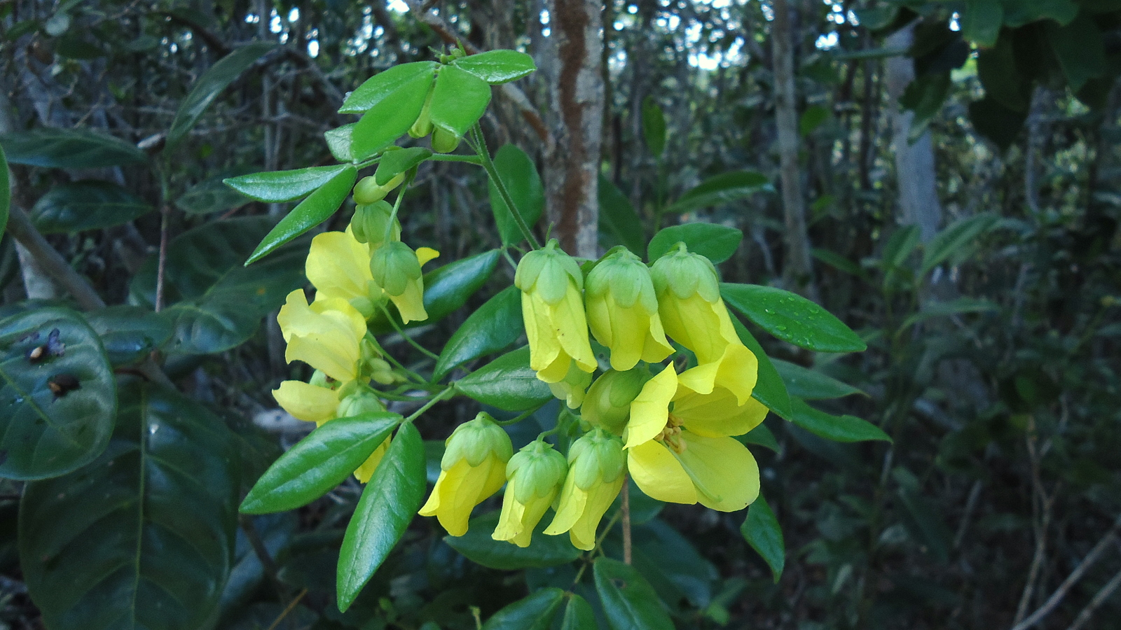 Senna pinheiroi H.S.Irwin & Barneby